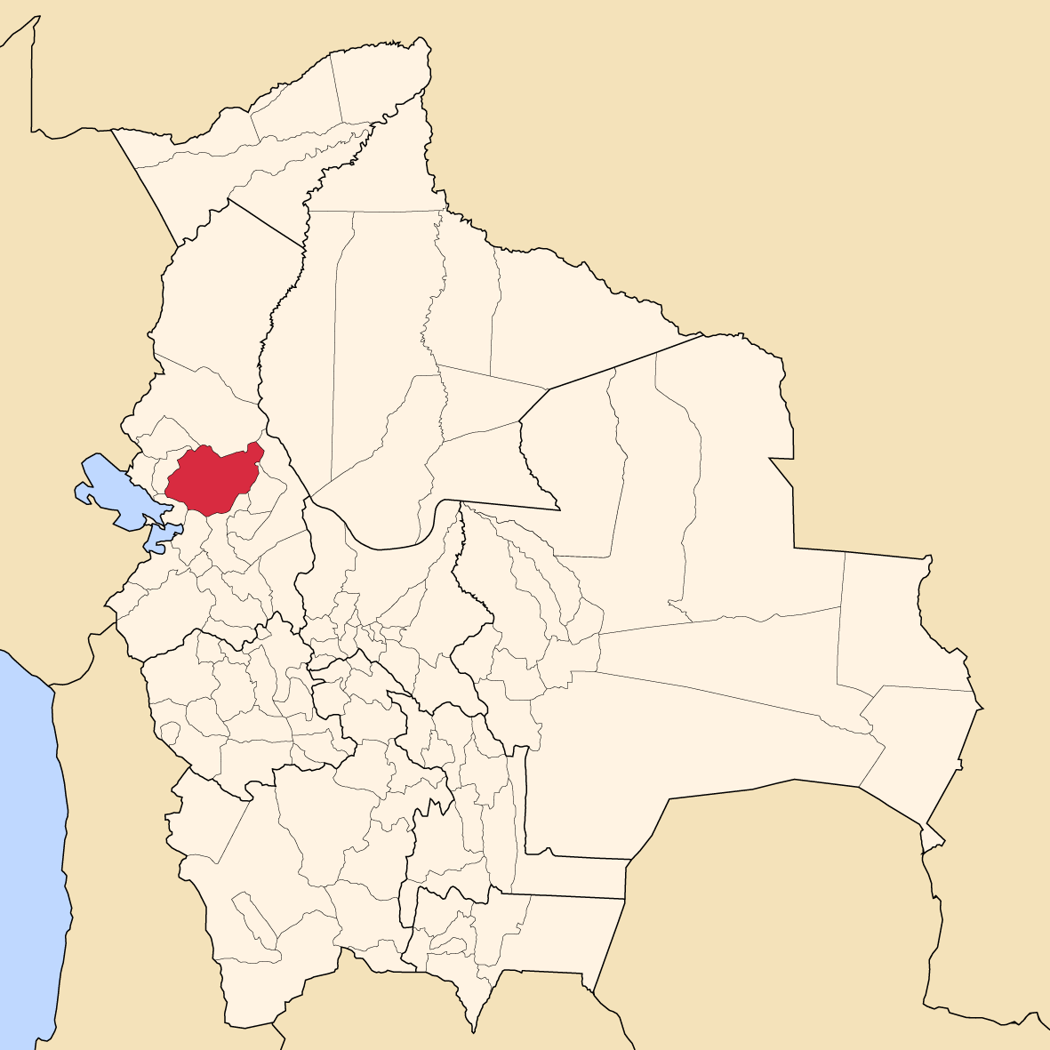 Map of Bolivia showing Larecaja province, La Paz